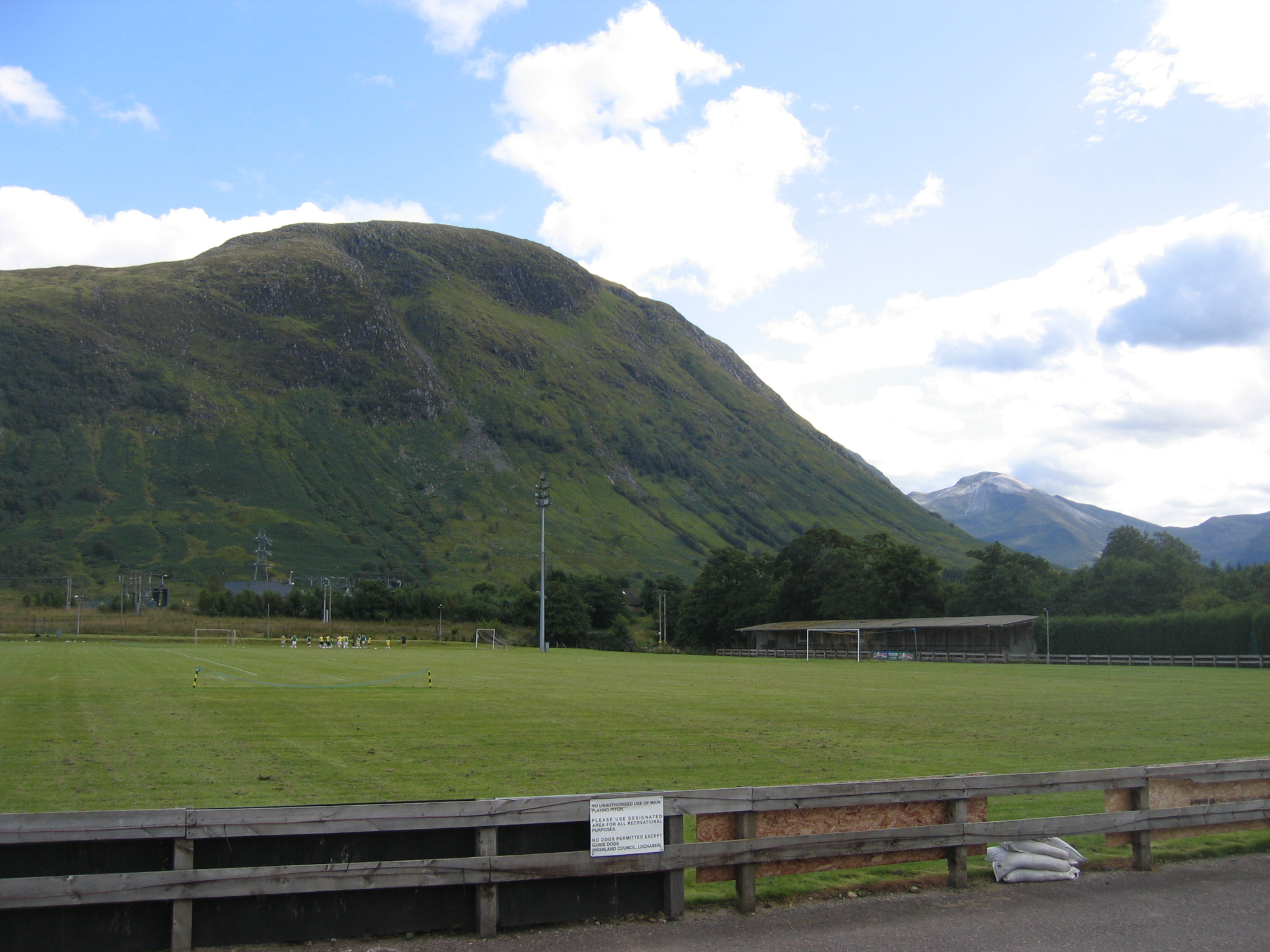 View of Claggan Park.